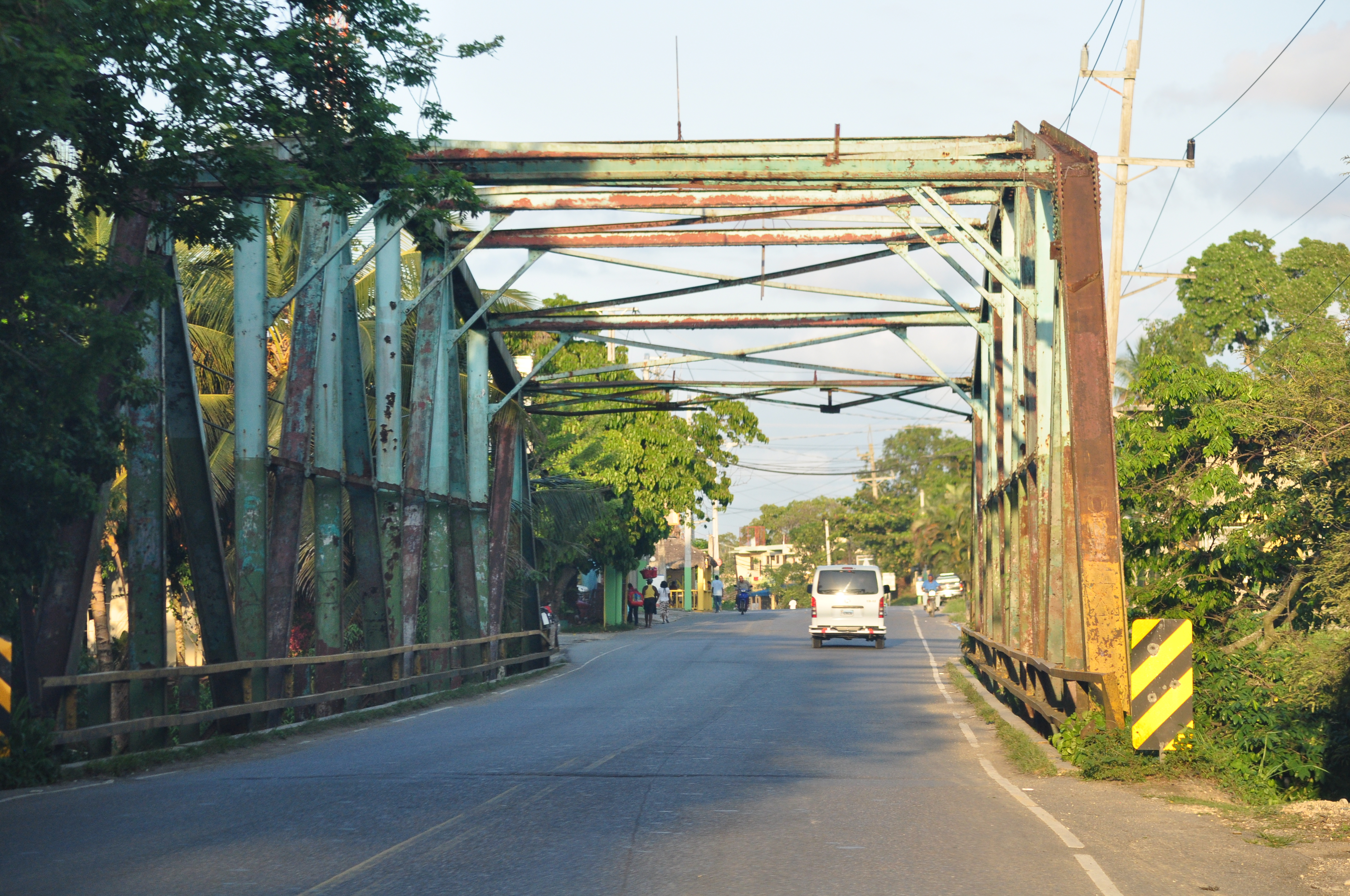 Bridge over the Rio Camu, Villa Montellano (Puerto Plata). Доминиканская Республика